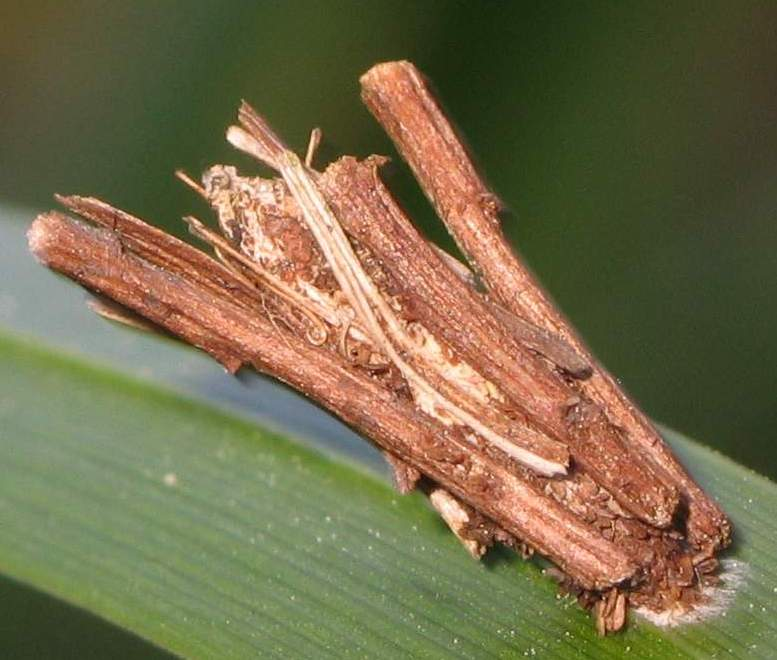 A case of a Bagworm moth (Psychidae) probably of Psyche casta. Author: soebe Date: May 25, 2005 Location: Hamburg, Northern Germany Taken by Soebe in Northern Germany (Hamburg) and released under GNU FDL.